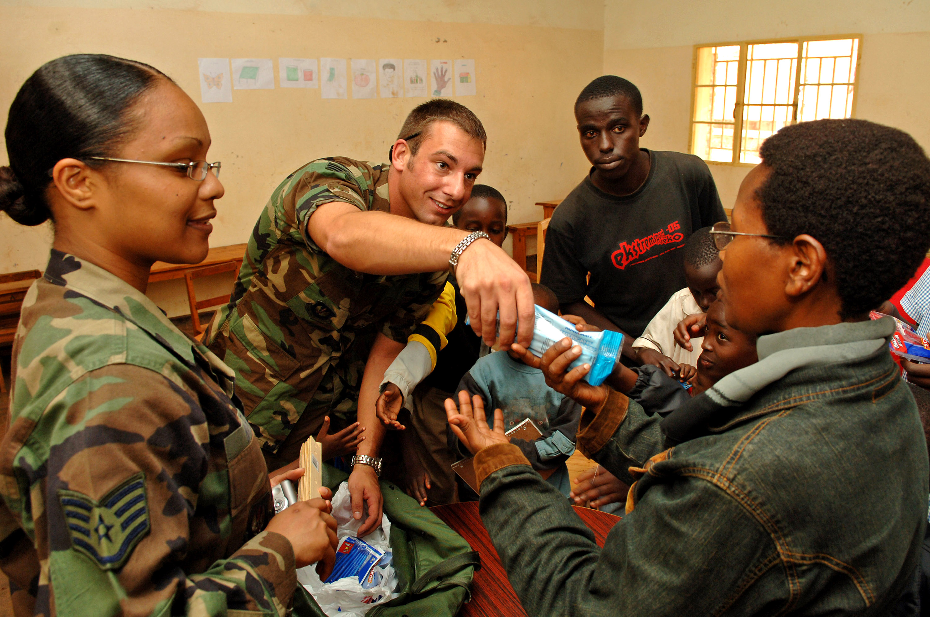 Airmen of the 786th Air Expeditionary Squadron from Ramstein Air Base, Germany, give school supplies to teachers and students May 10 at Gisimba Orphanage in Kigali, Rwanda. As part of a two-week airlift mission in the Darfur region of Sudan, Airmen and crew members from Miami Air visited local shelters to pass out donations that ranged from children's and adult clothing, to medical supplies, school supplies and toys.